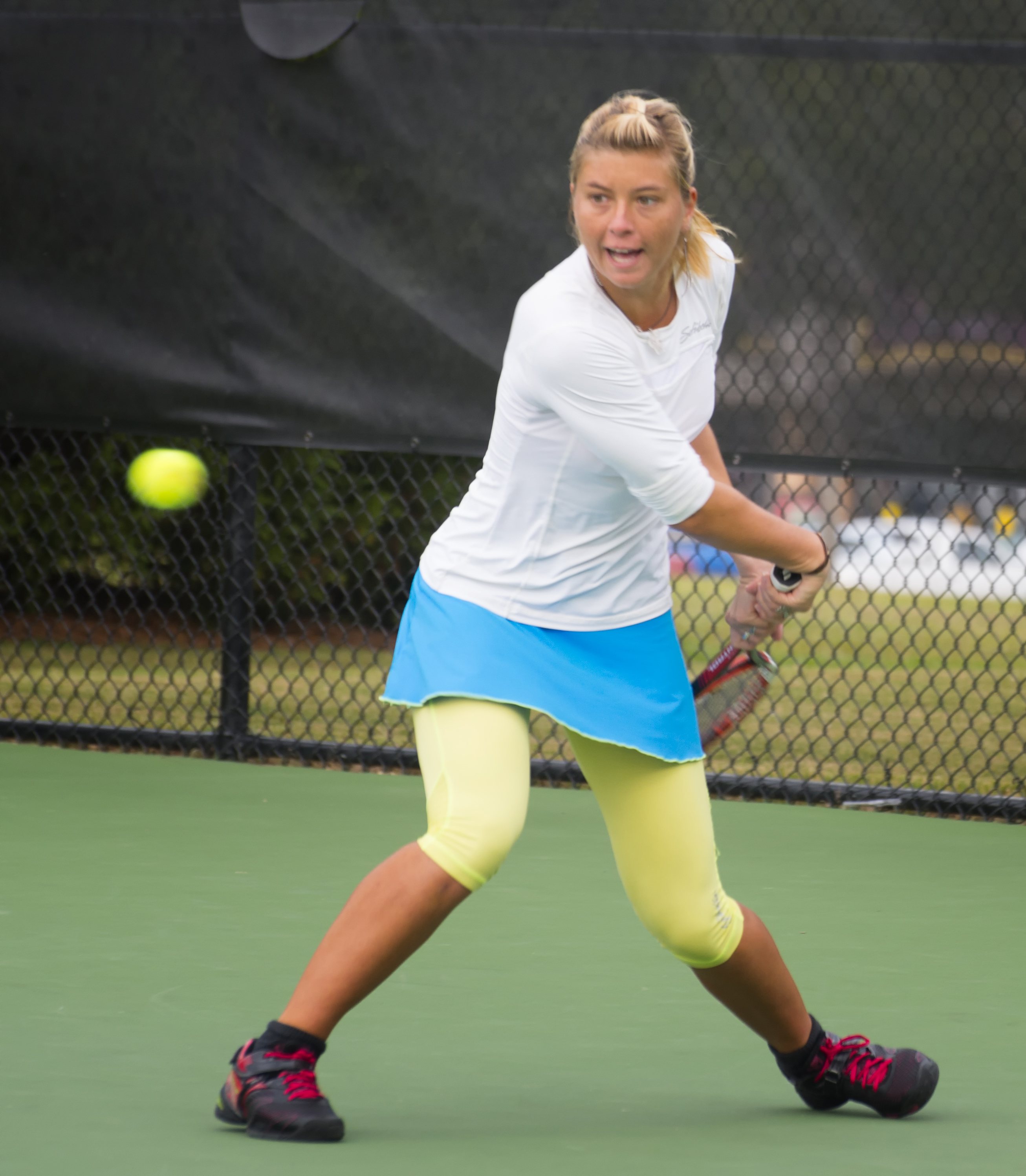 Jan Abaza at the 2014 Rock Hill Rocks Open